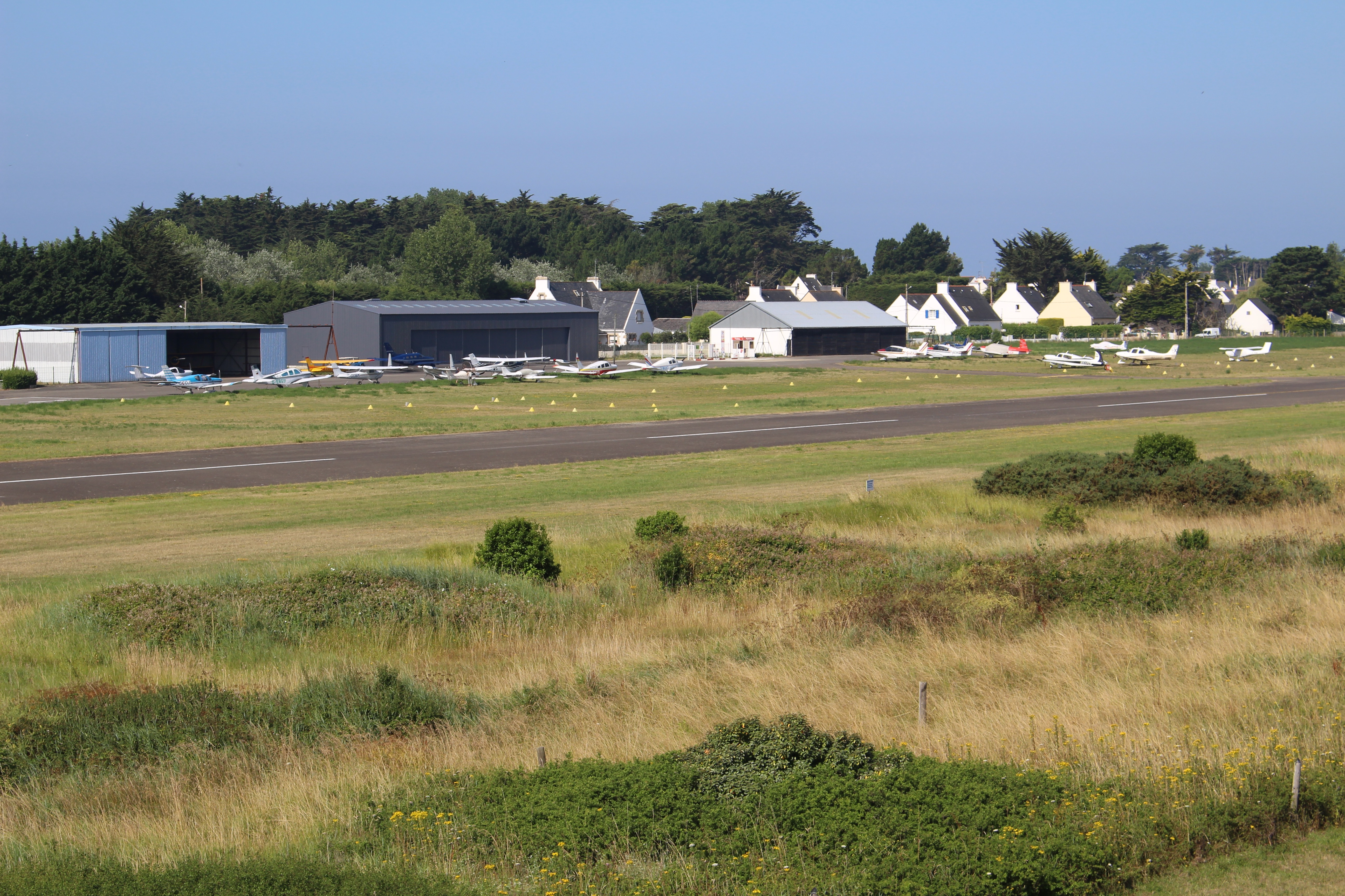 Quiberon airfield